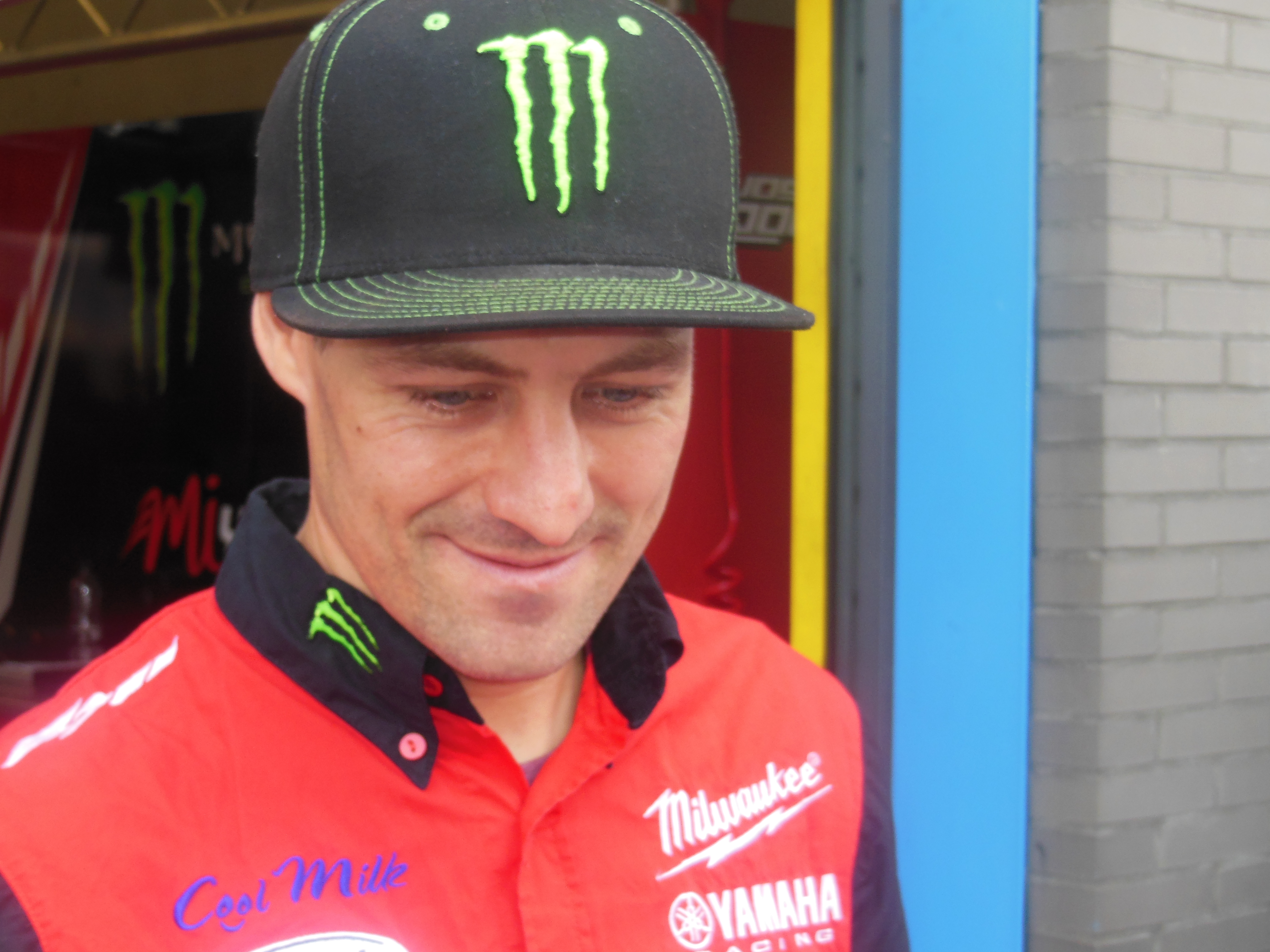 Josh Brookes. Assen 2014